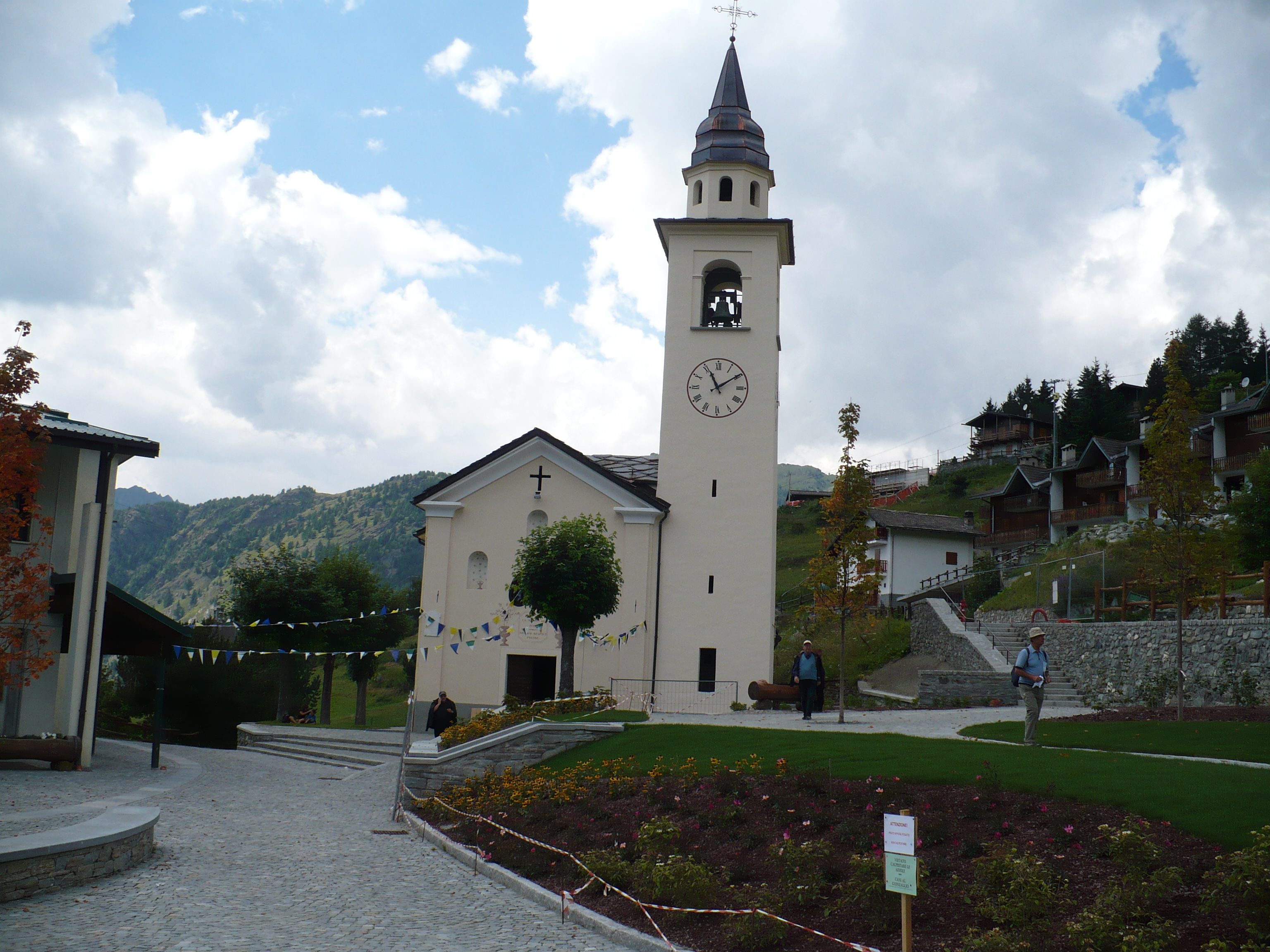 Church - Chamois - Valtournenche - Aosta valley - Italy